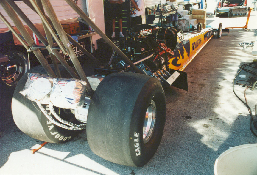 Blaine Johnson dragster. He started racing in NHRA in 1994 and died in 1996.Blaine Johnson